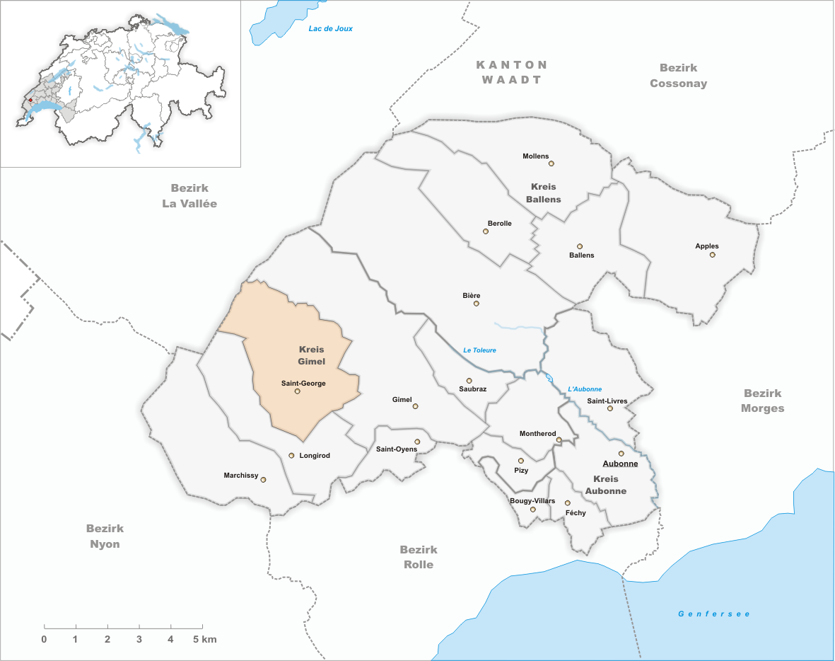 Municipality Saint-George